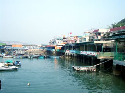 By Tsui Sing Yan Eric (rseric)